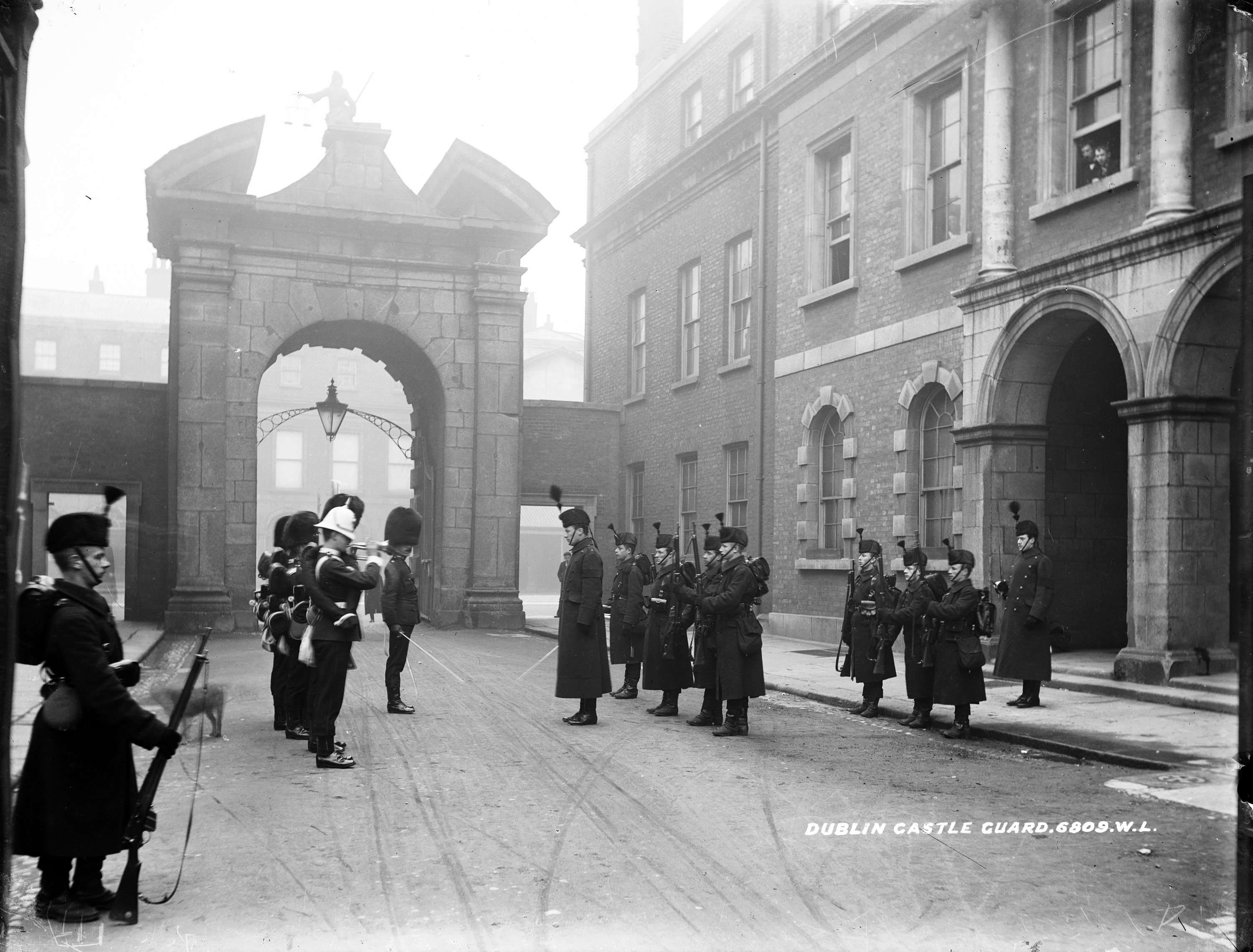 Taken at Dublin Castle. If you recognise regiments, ceremony, anything at all really, please let us know… Date: Circa 1905?? NLI Ref.: L_ROY_06809